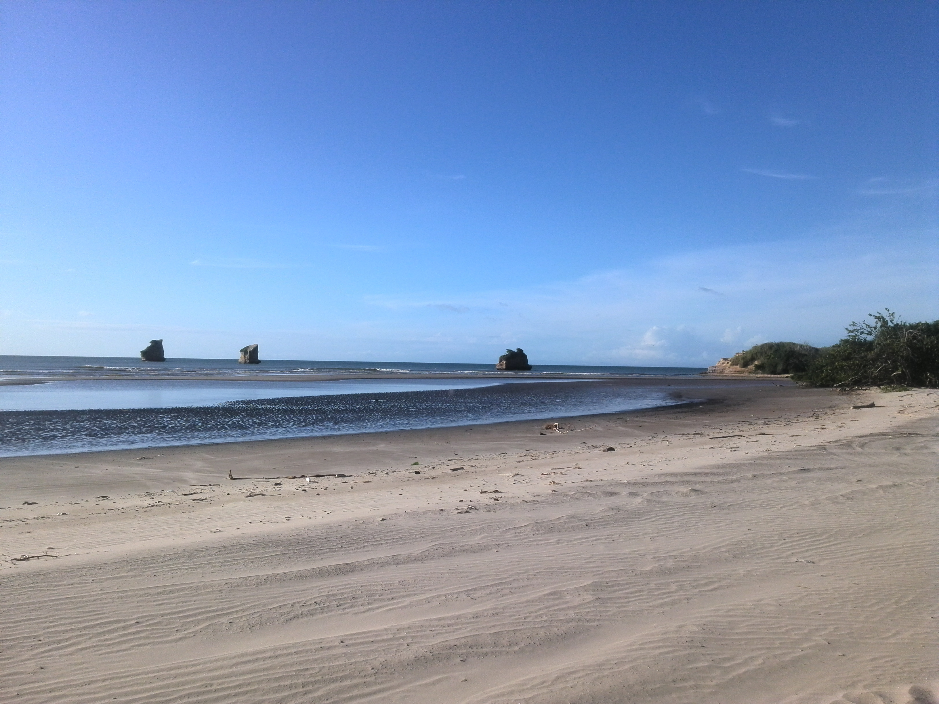 Three Sisters, Columbus Bay, Icacos, Siparia, Trinidad and Tobago. Famous for having been sighted by Columbus in 1498.